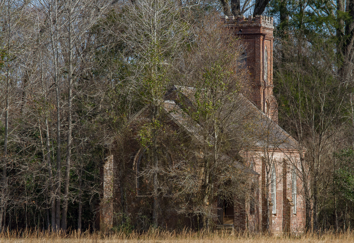 St. Mary's Episcopal Church (abandoned) near Weyanoke, Louisiana